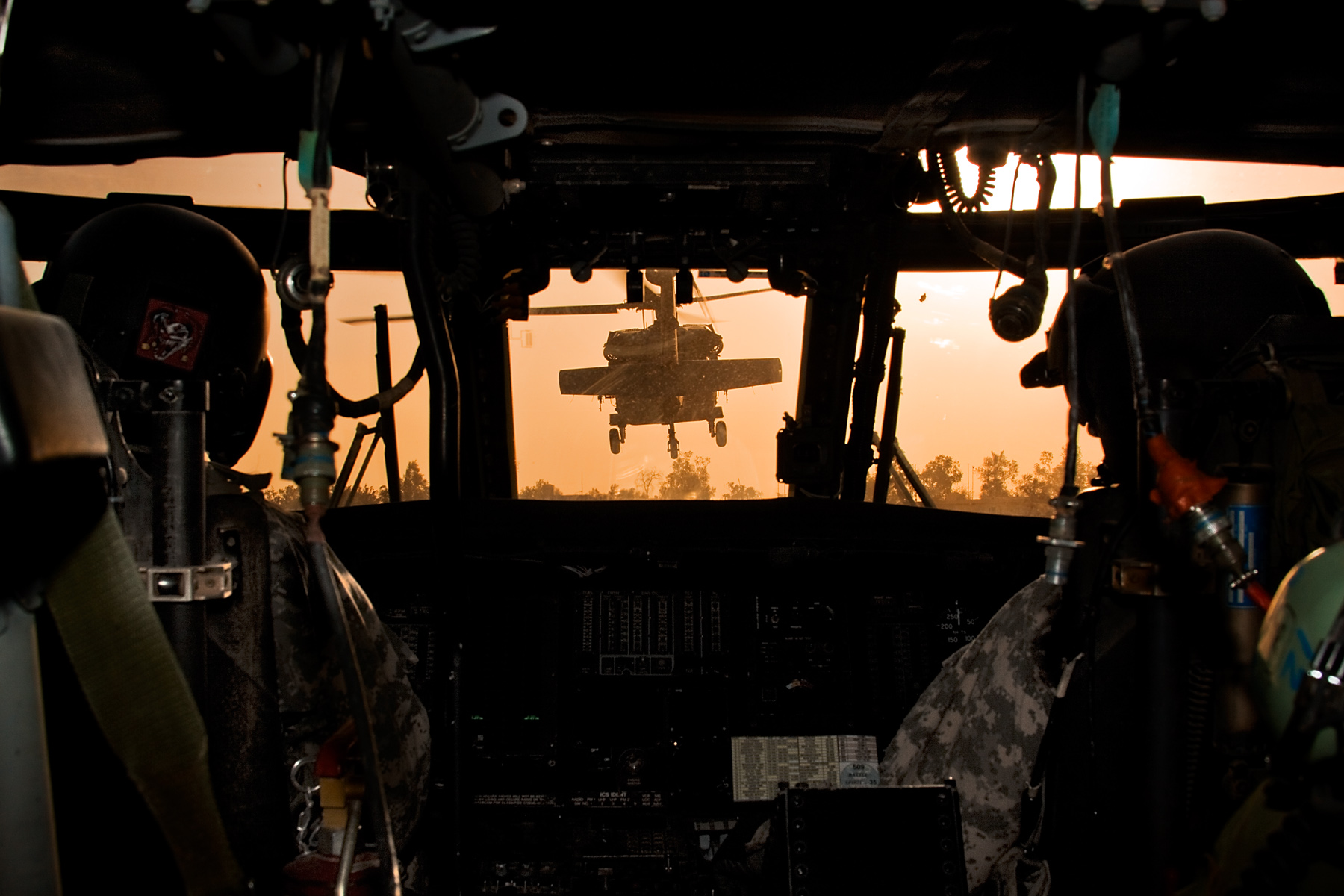 During an early morning start, an orange glow from the sun fills the sky as a team of UH-60 Black Hawk helicopters from Company B, 3rd Battalion, 227th Aviation Regiment, 1st Air Cavalry Brigade, 1st Cavalry Division, Multi-National Division-Baghdad, depart Camp Taji Airfield, Iraq, Aug. 18, 2009. The aircrews are flying to a training area where they will be conducting training with Iraqi army soldiers.